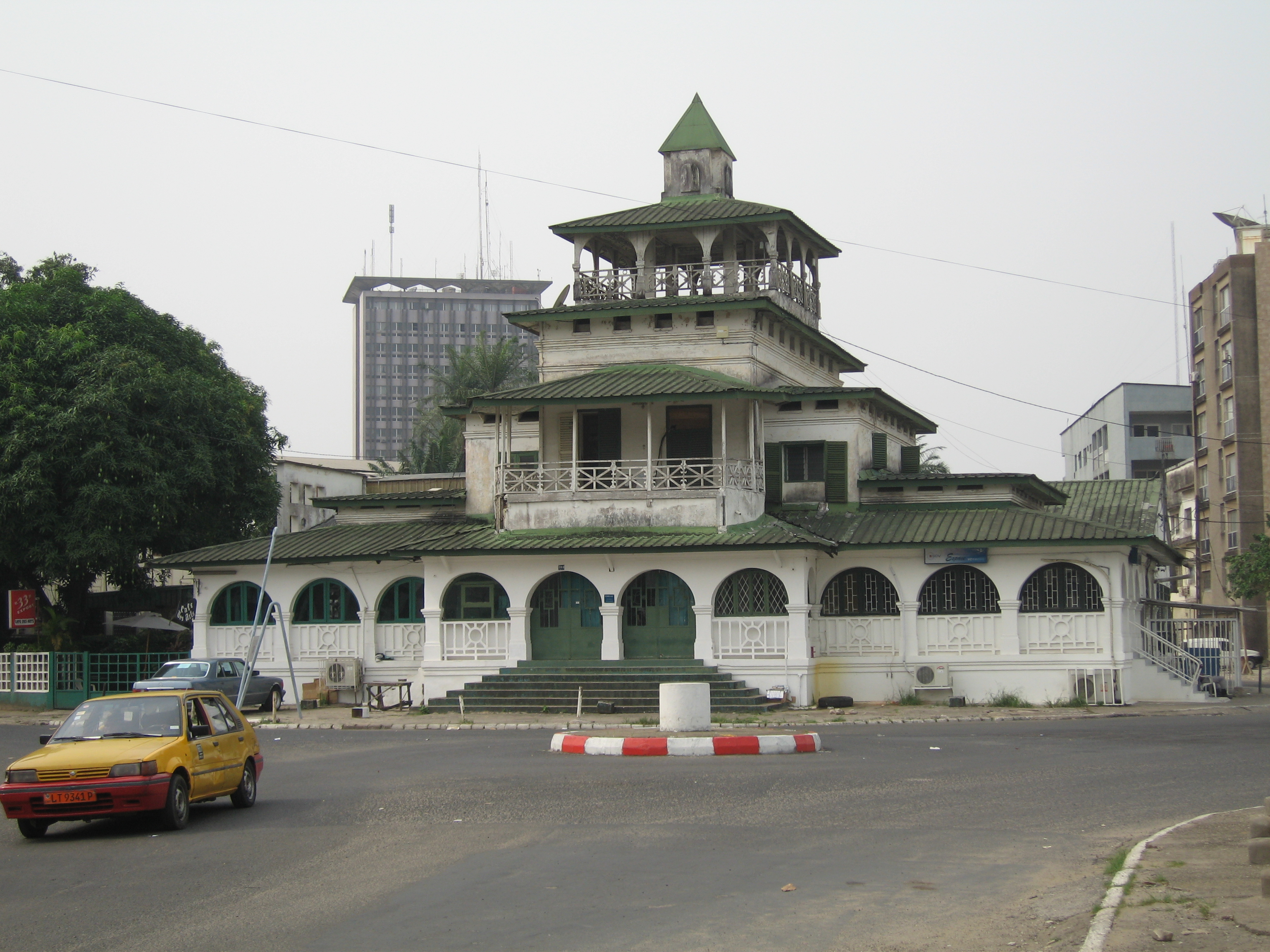 Ars&Urbis International Workshop, organized by doual'art in collaboration with iStrike Foundation, Douala, 2007. Research documentation by Emiliano Gandolfi.